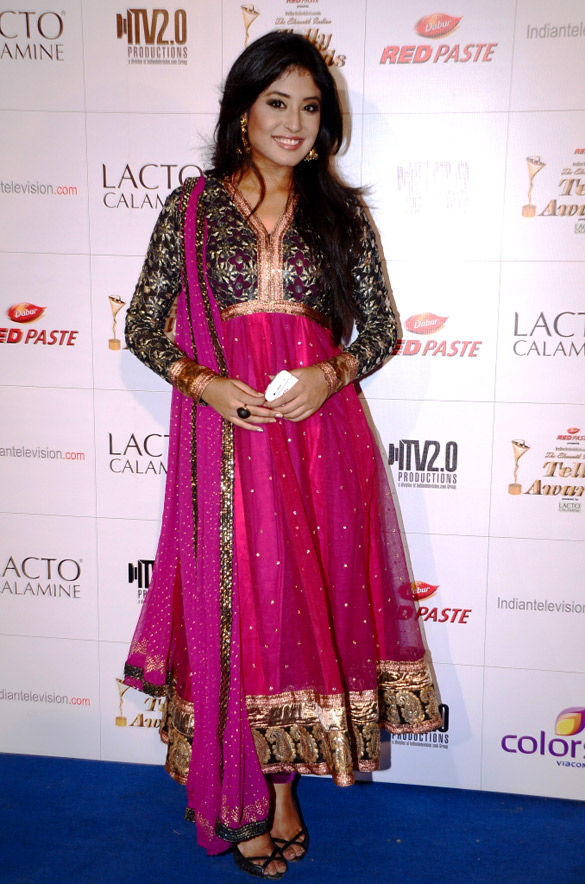 colors indian telly awards